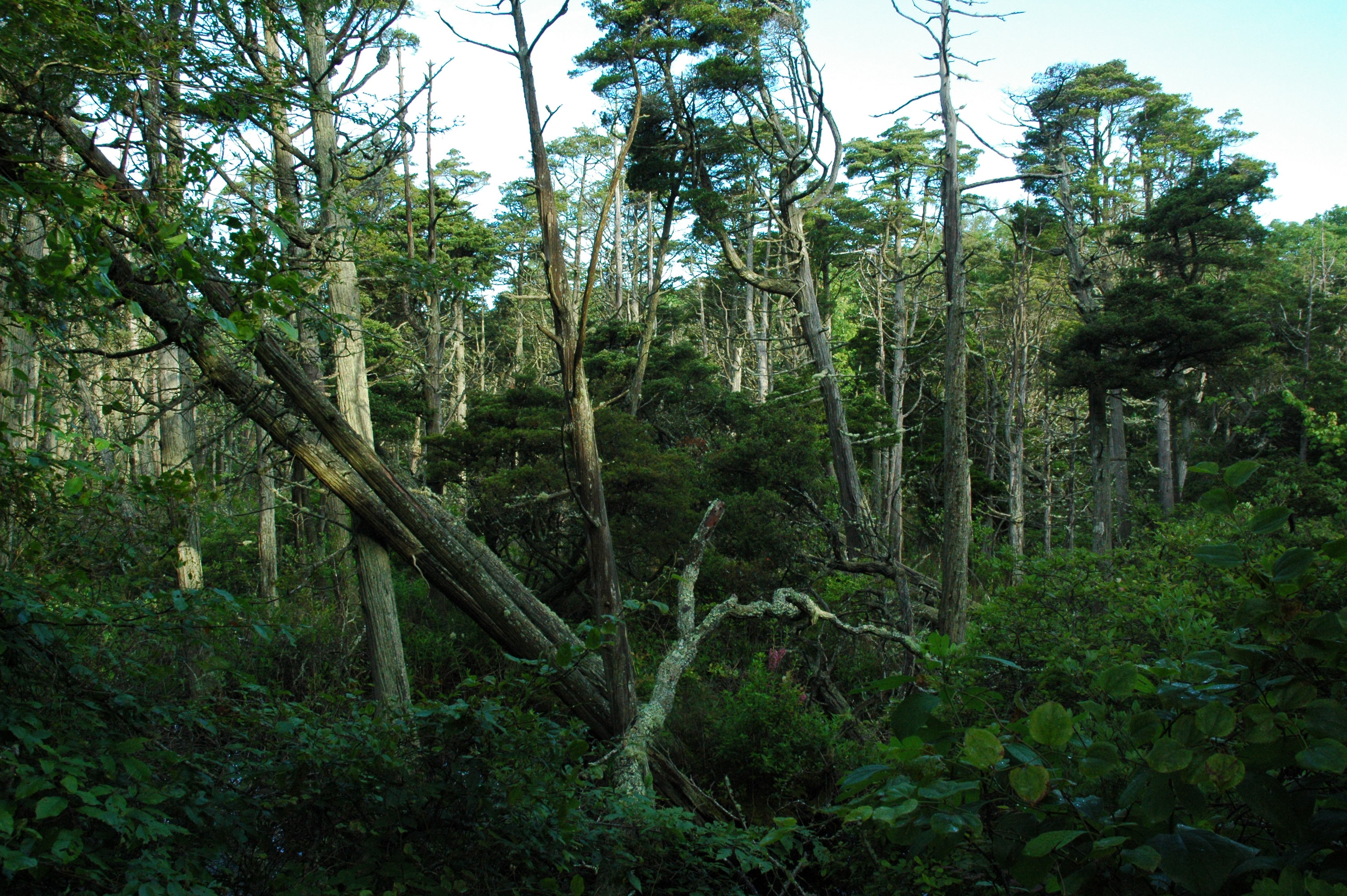 Atlantic White Cypress Chamaecyparis thyoides forest, Woods Hole, Massachusetts, USA 41°31'31"N 70°39'16"W, 10m altitude